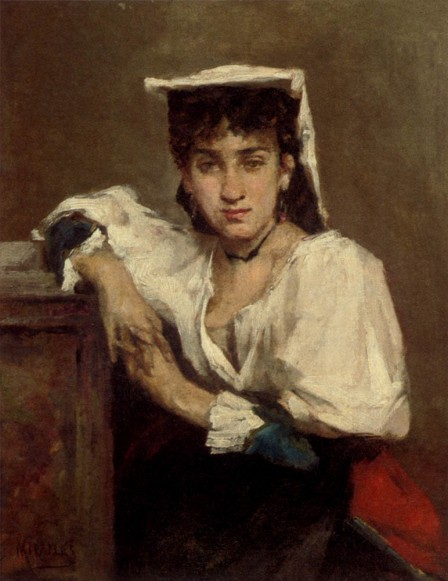 Dama amb mantilla llegint una carta